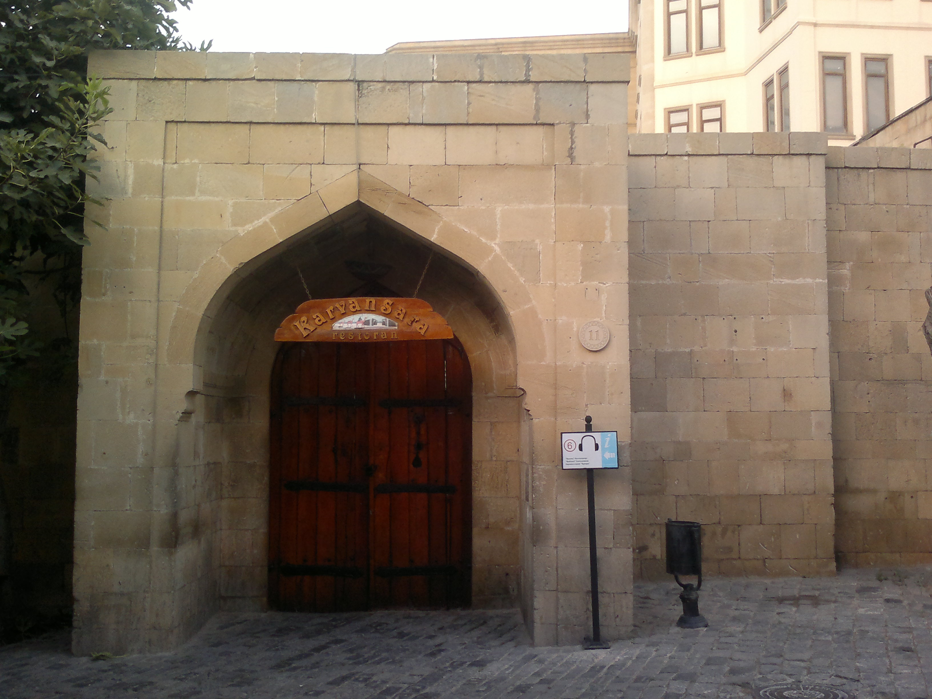 Bukhara Caravansaray in Baku. Built in the 15 th century.